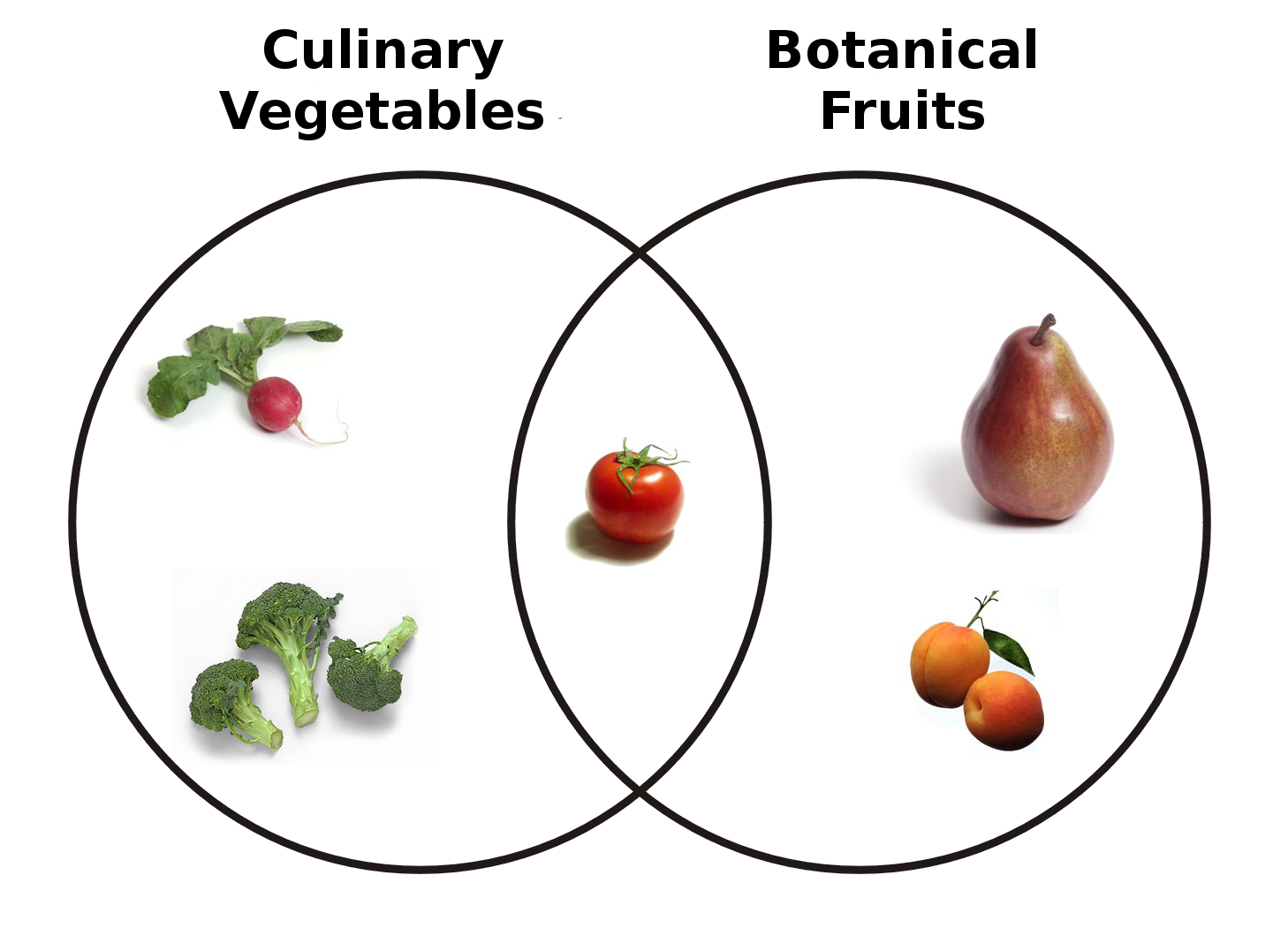 Euler diagram representing the relationship between (botanical) fruits and vegetables. Botanical fruits that are not vegetables are culinary fruits.